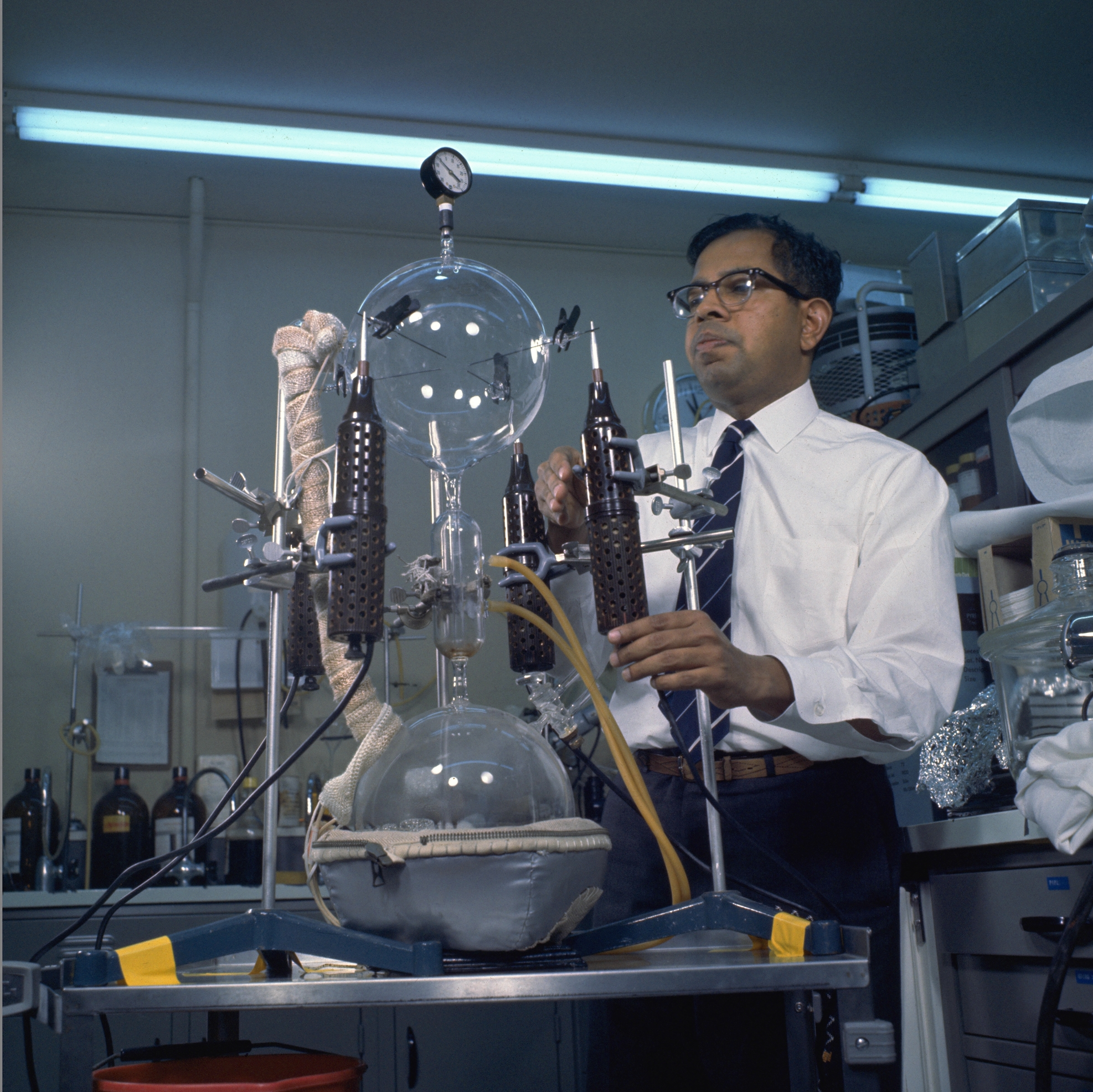 By passing electrical sparks through mixtures of hydrogen, methane, ammonia, and water vapor, scientists produced colored amino acids, the building blocks of organic life. The experiment was first performed by Stanley Miller in 1953 and has now been repeated many times elsewhere. This photograph show an experiment at NASA-Ames Research Center's Chemical Evolution Branch. When methane or acetylene, both constituents of the Jovian atmosphere, is sparked in a chamber together with ammonia at the temperature of liquid nitrogen, reddish-brown polymeric material is synthesized. Such processes might be responsible for the colors of the Jovian atmosphere.